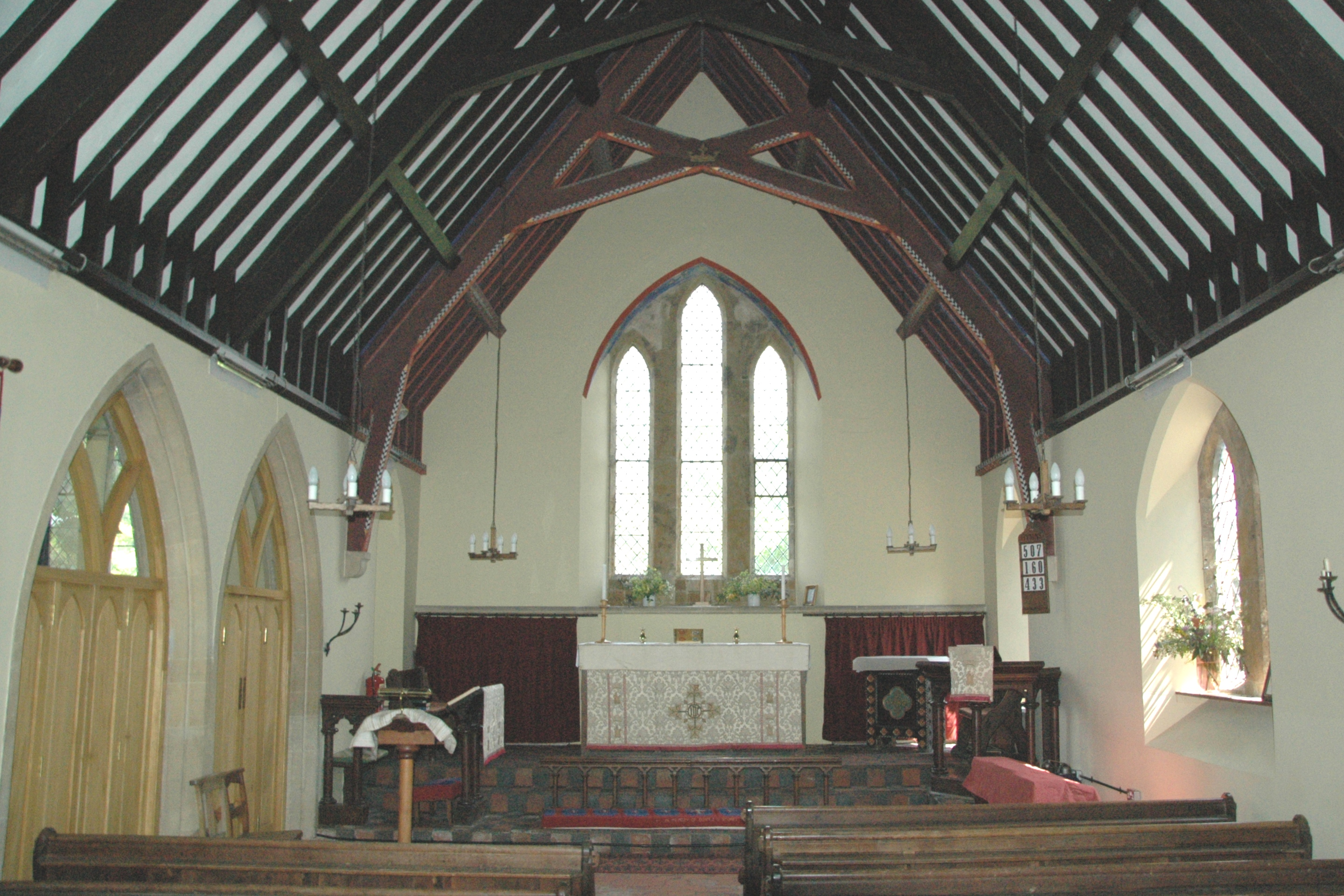 Church of England parish church of St John the Evangelist, Hempton, Oxfordshire: interior of nave, looking east to the chancel. The two arches of the north arcade are on the left.